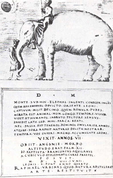 Hanno, the Pope's elephant. Epithaph and inscription (drawings)